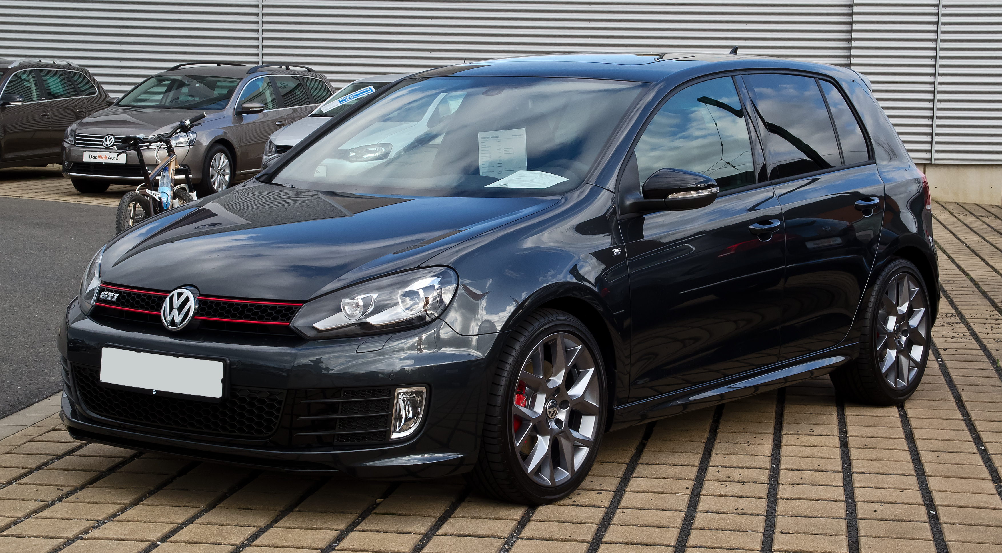 VW Golf GTI Edition 35 (VI)